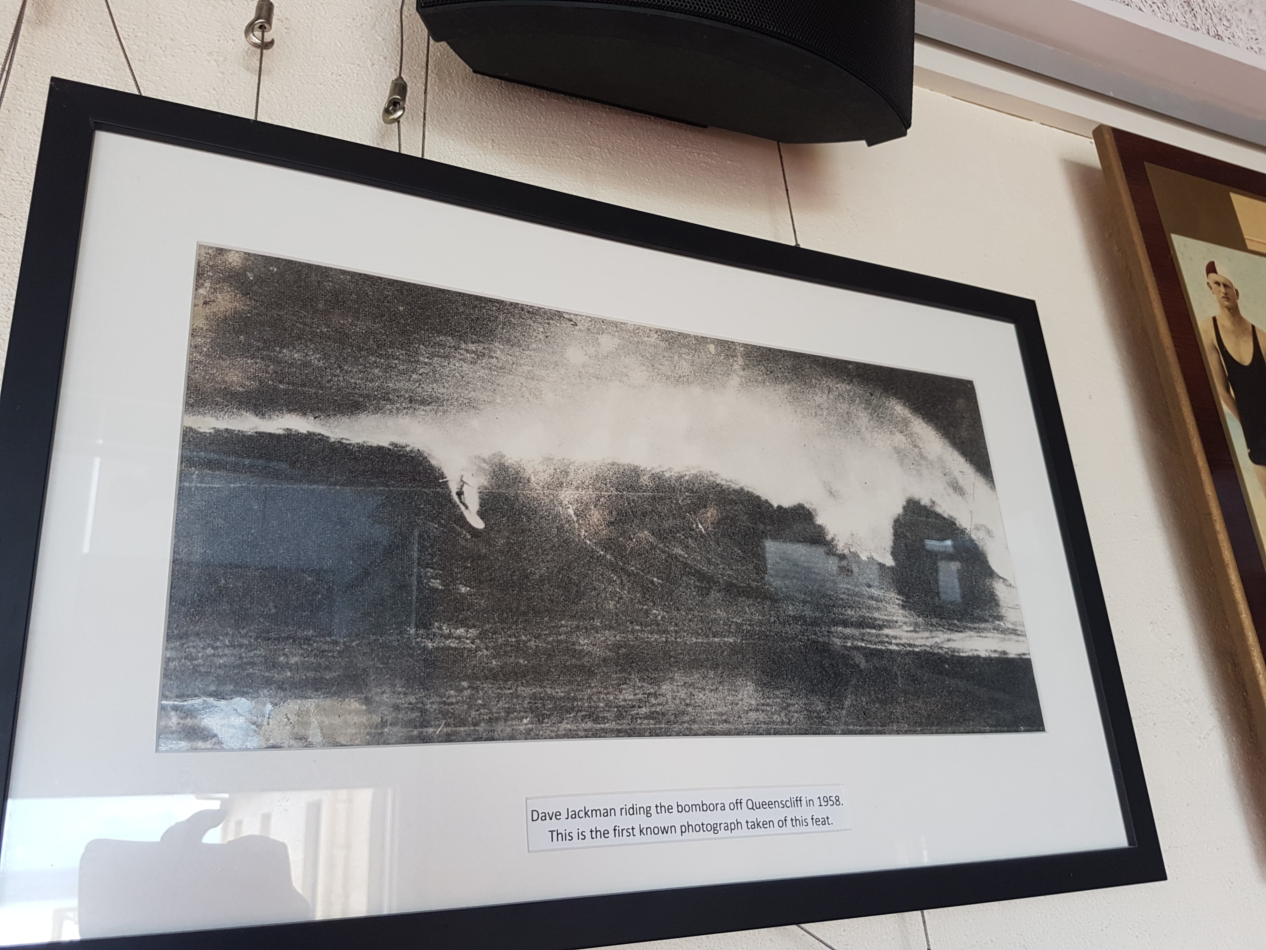 Photograph on Freshwater surfclub wall